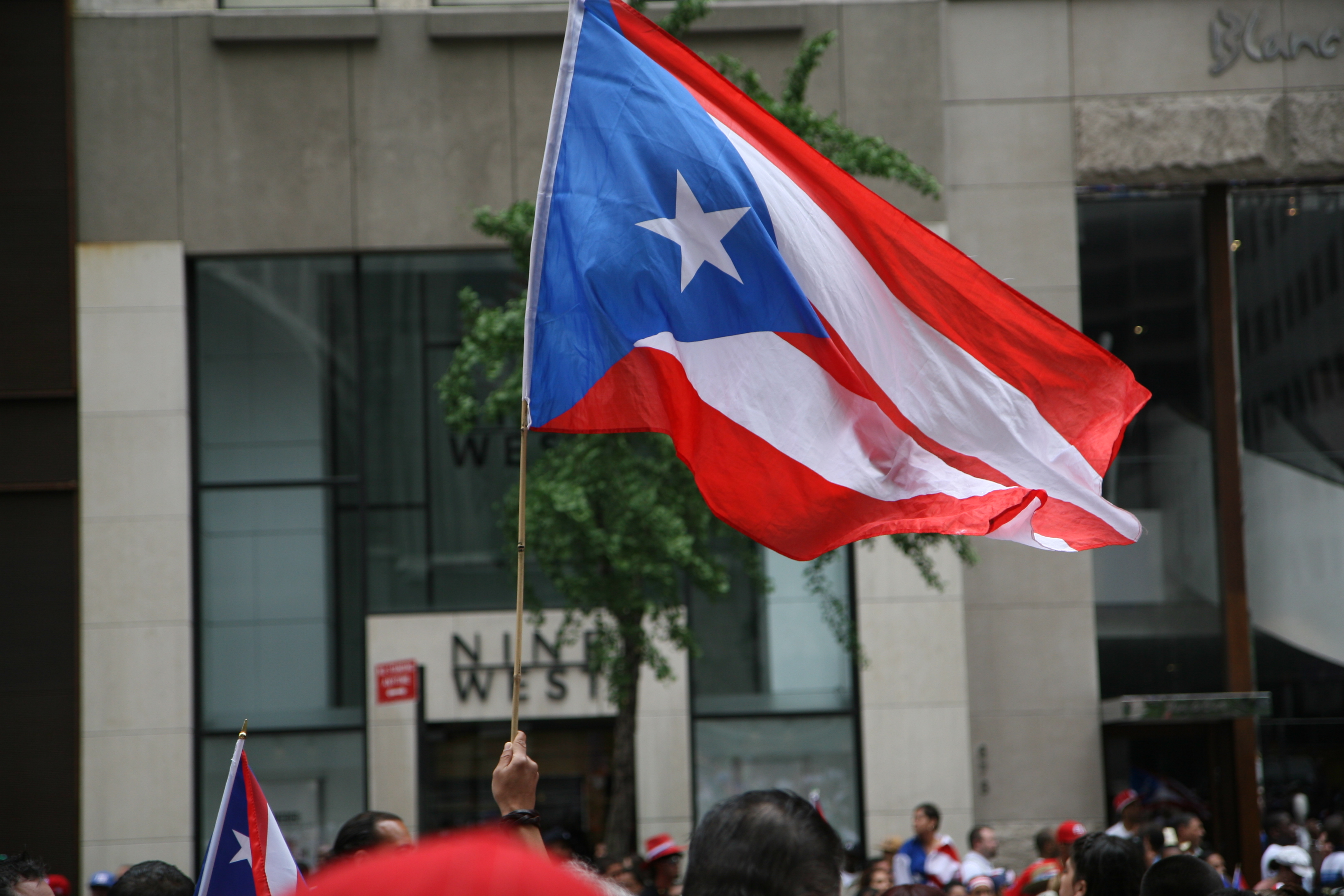 According to Wikipedia, the Puerto Rican flag is a product of an aftervision of the Cuban flag. "On June 12, 1892, Antonio V�lez Alvarado was at his apartment at 219 Twenty-Third Street in Manhattan, when he stared at a Cuban flag for a few minutes, and then took a look at the blank wall in which it was being displayed. V�lez suddenly perceived an optical illusion, in which he perceived the image of the Cuban flag with the colors in the flag's triangle and stripes inverted."